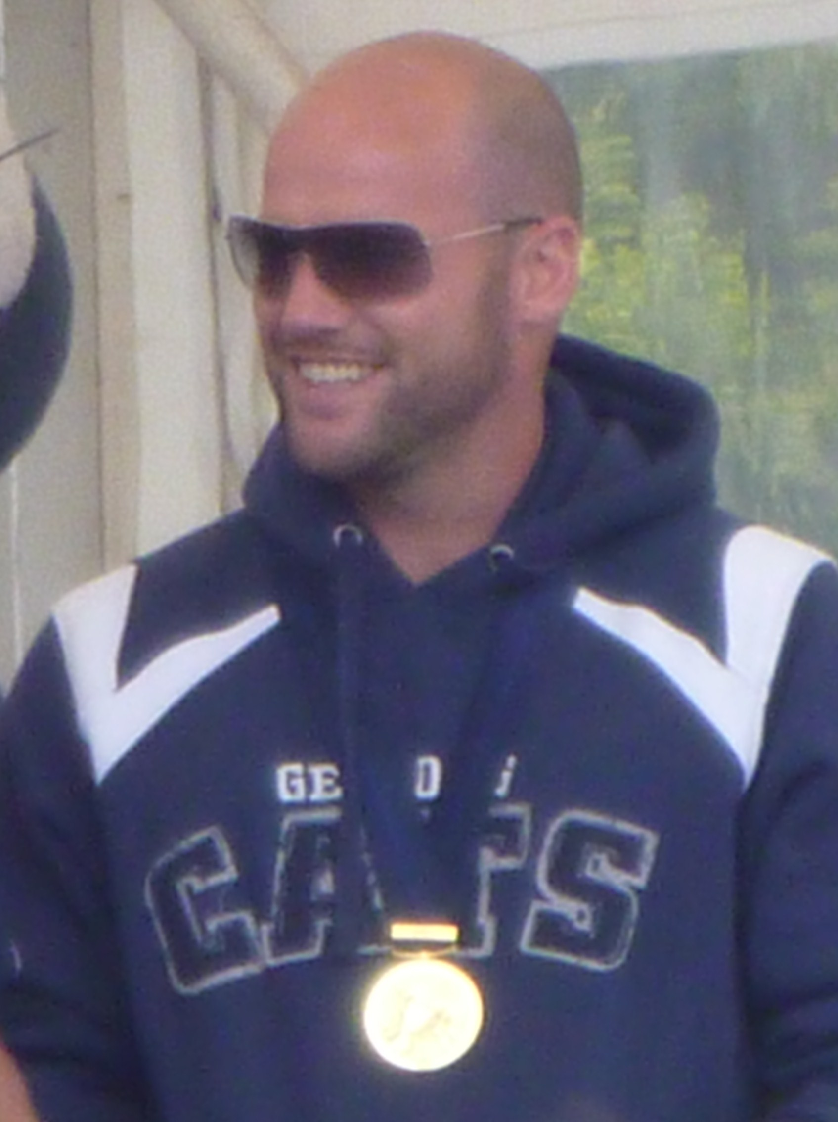 Paul Chapman at the Geelong Football Club's 2011 AFL Premiership victory parade in Geelong, Victoria, Australia.